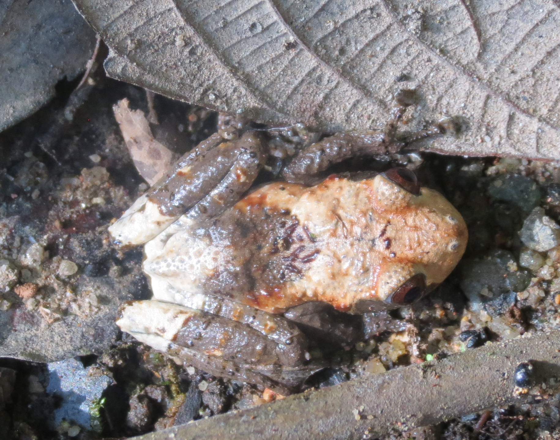 Photo of a Theloderma asperum frog from above. The frog was found in a water tank on Fraser's Hill, Pahang, Malaysia.